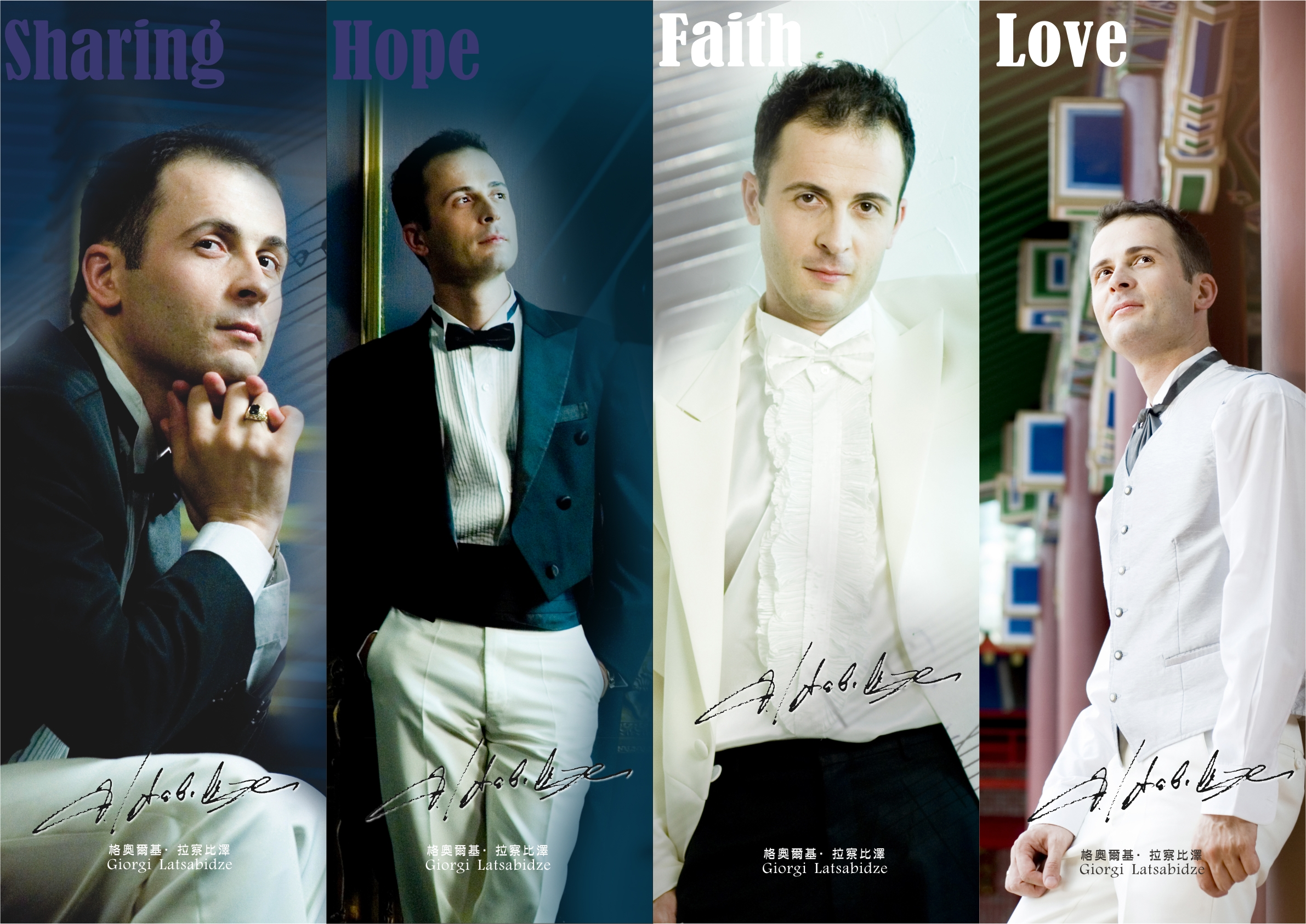 Poster of Charity Gala Concert for Disabled Children in Taiwan, Republic of China. August 1st, 4:00 Pm, 2010. Pianist: Giorgi Latsabidze.